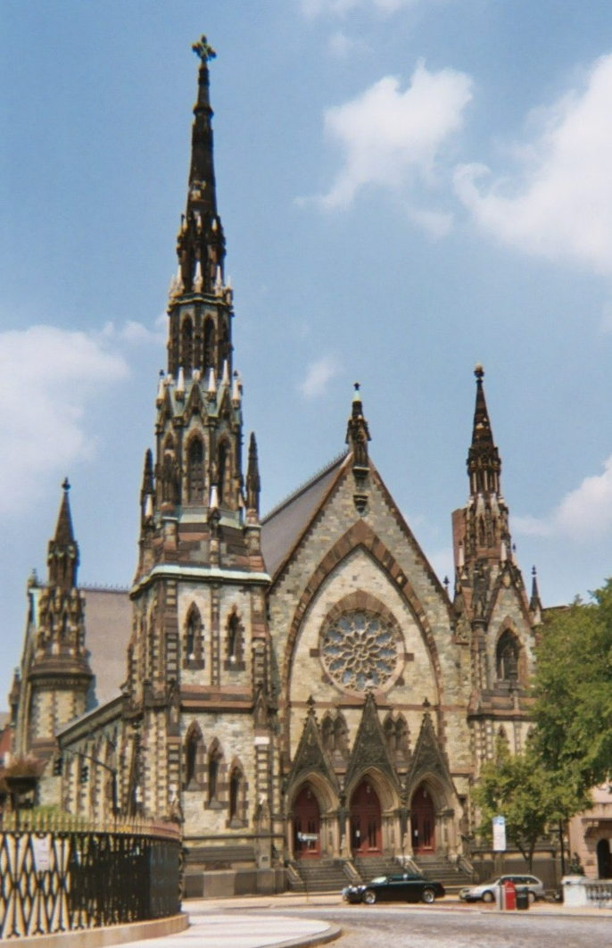 Mount Vernon United Methodist Church in Mount Vernon, Baltimore, Maryland.